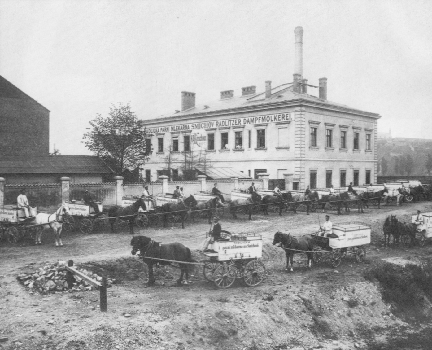 Parní Radlická mlékárna (Steam Radlice´s Milk factory) in Smíchov (Prague, Czech republic) was milk company which existed from 1872 to 1995 in Prague. They produced milk groceries, cheese, butter etc.